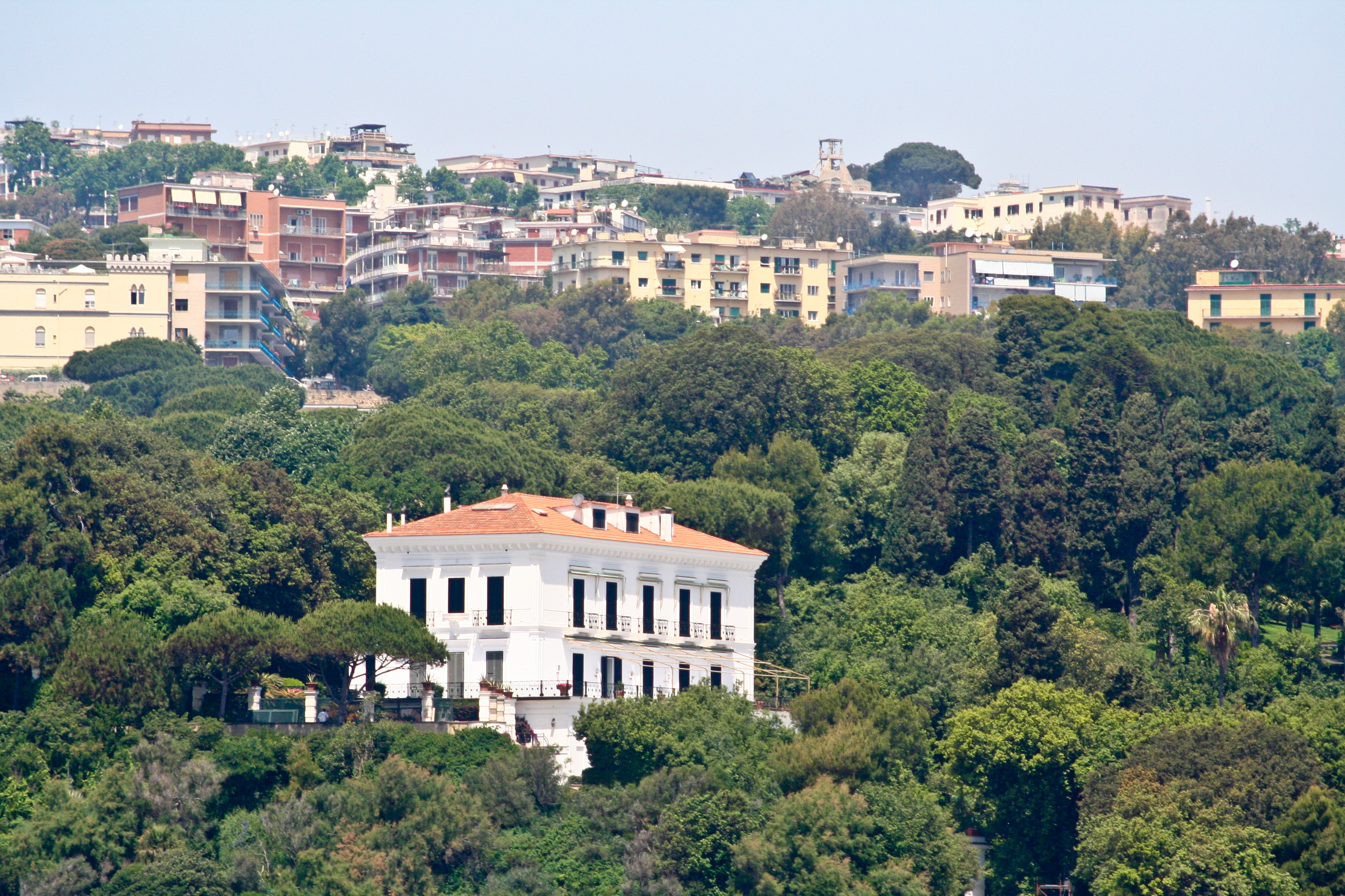 Villa Rosebery, Napoli